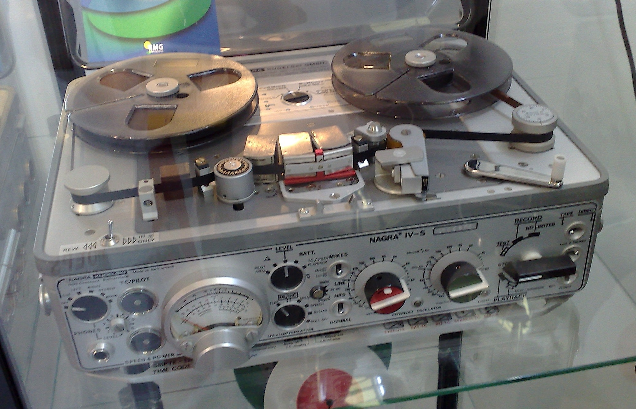 Nagra IV-S - 1/4" tape recorder I've dragged one of those around when I studied sound in film school. Those are totally reliable machines.